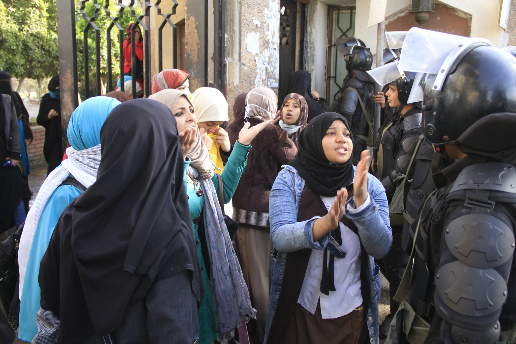 Original dscription: "Female Islamist students speak to police during a protest at Al-Azhar University in Cairo, Dec. 11, 2013. (Hamada Elrasam for VOA)"